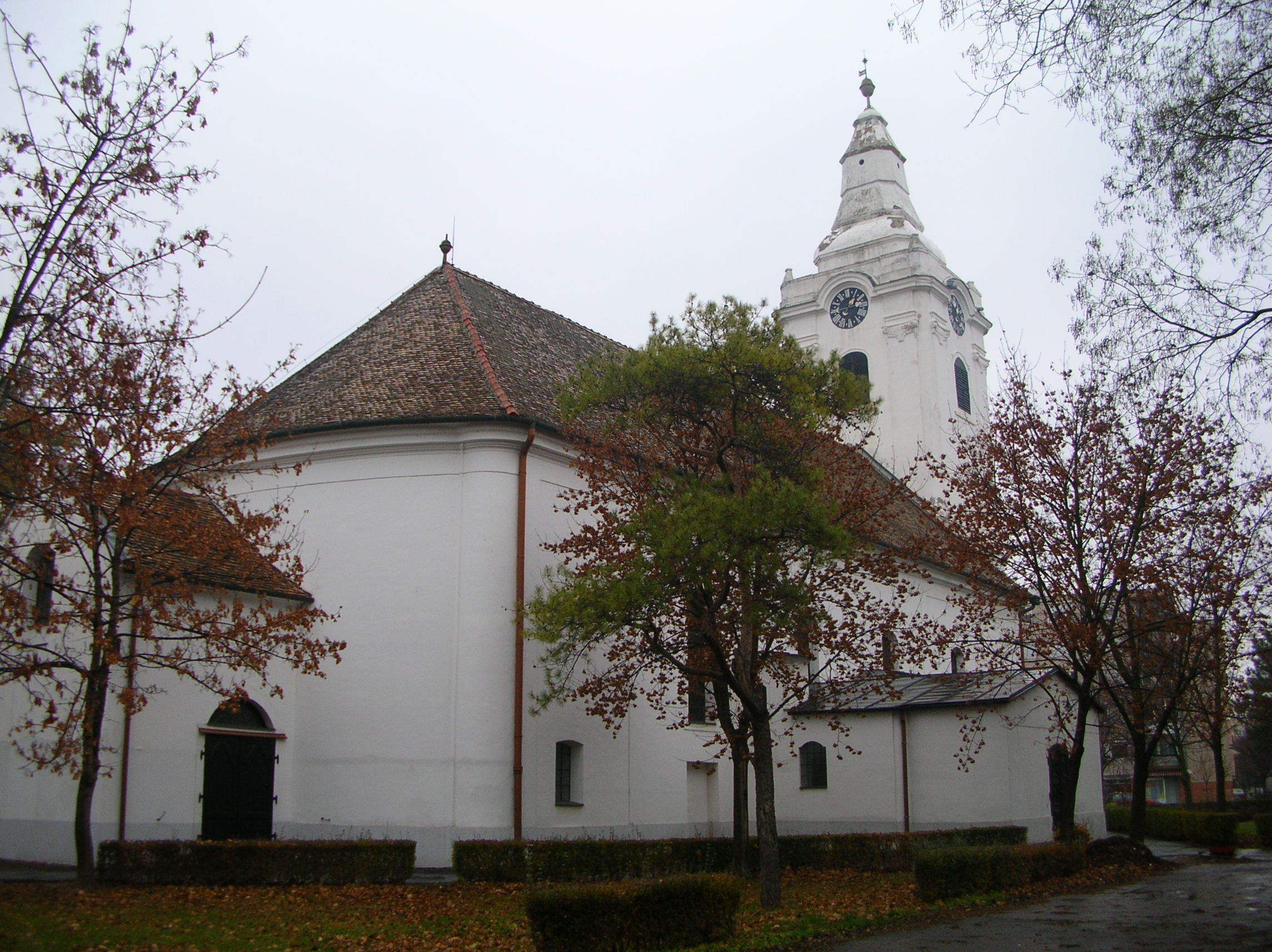 Reformat church in Makó - makói Református Ótemplom